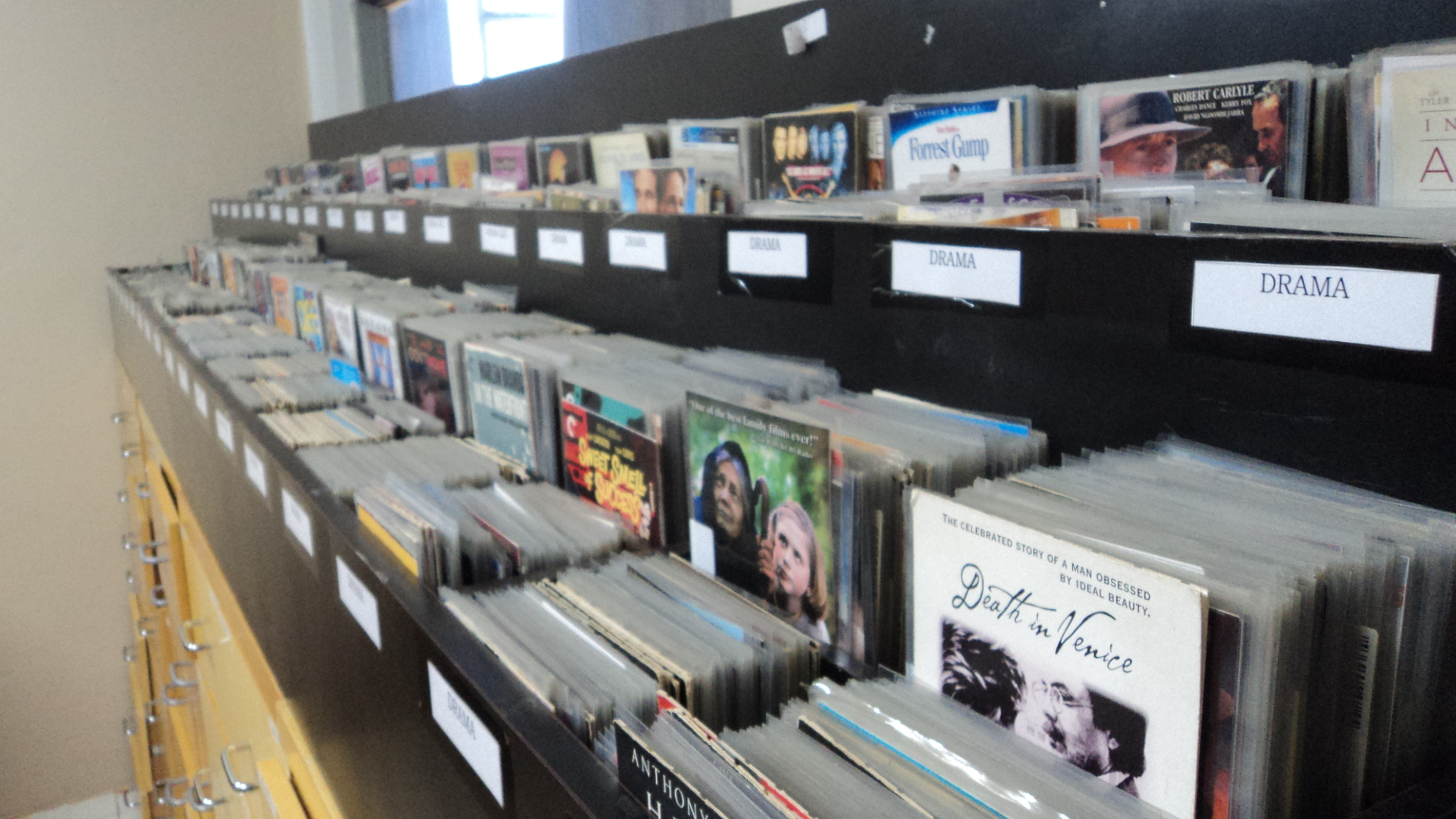 DVD Collection